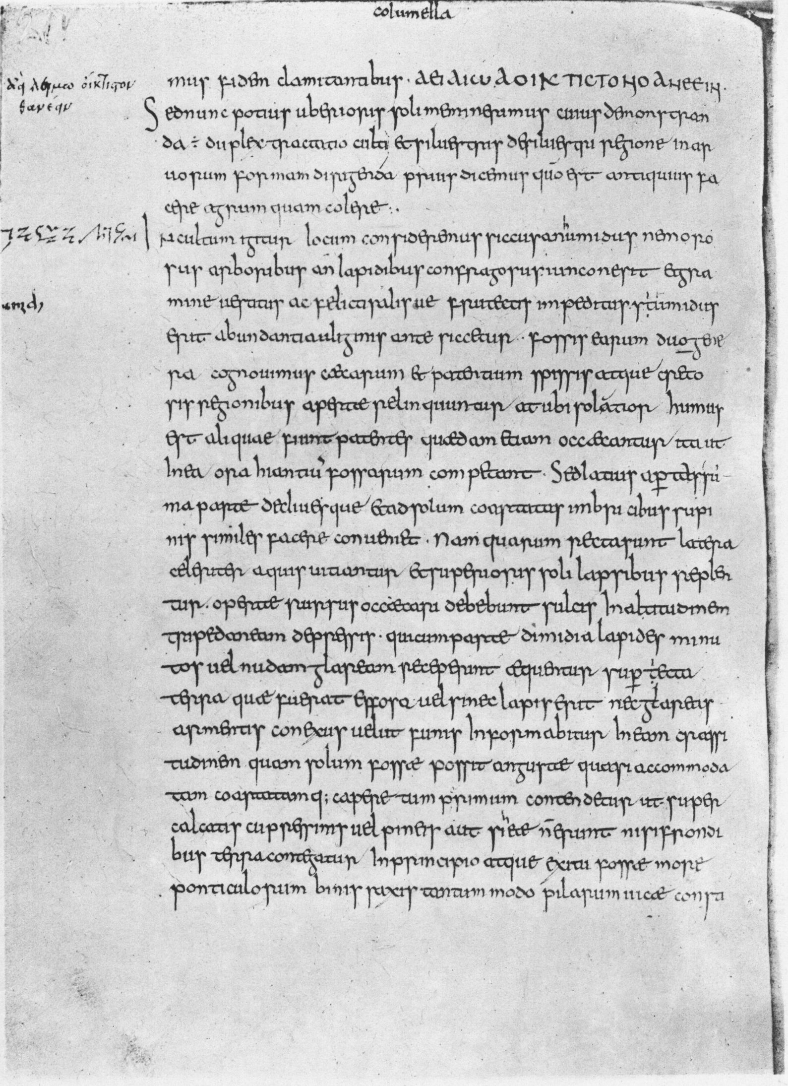 Columella, De re rustica, in ms. Milan, Biblioteca Ambrosiana, L 85 sup., fol. 21v.